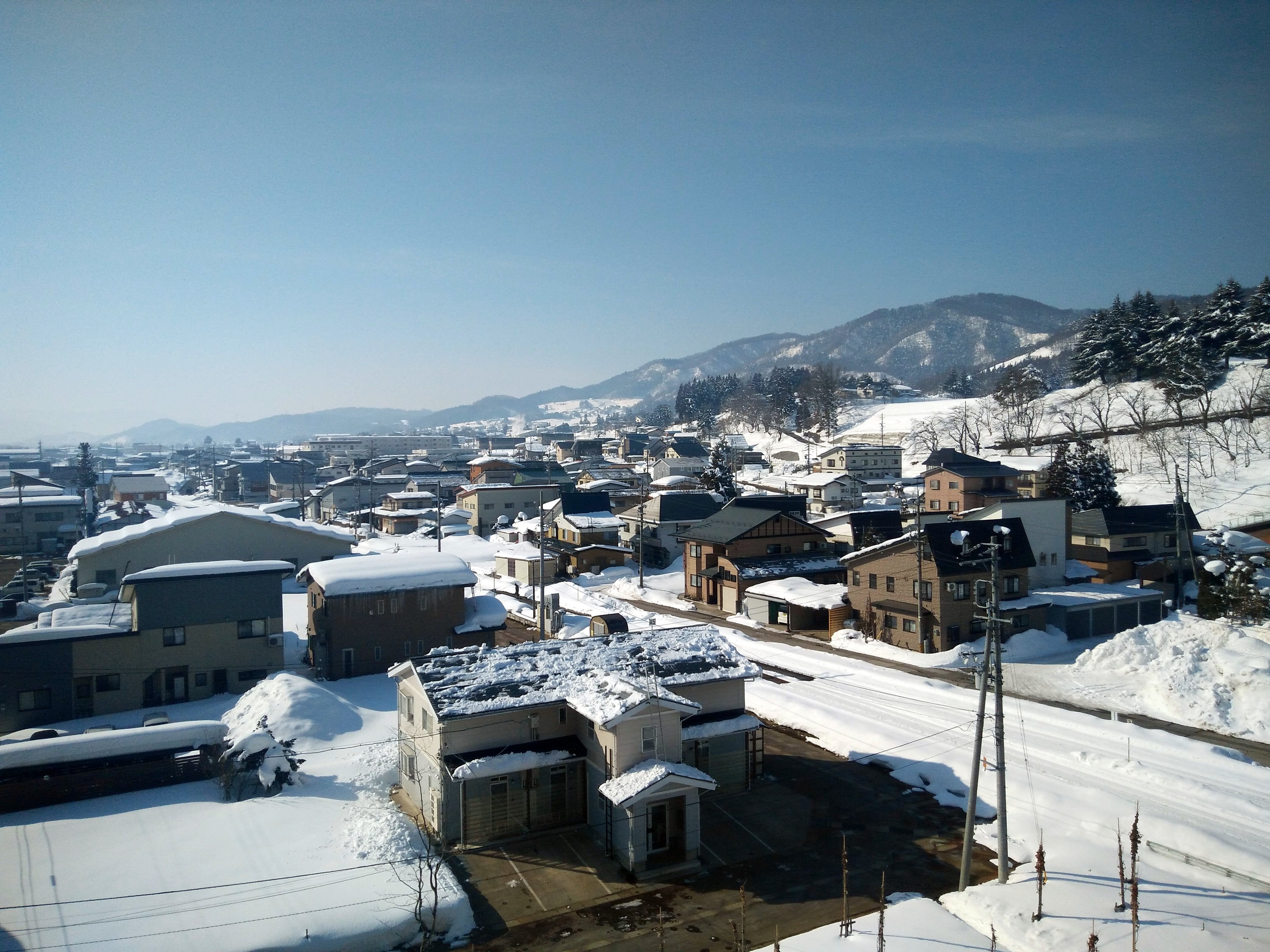 Iiyama in winter, photo taken from Iiyama Station